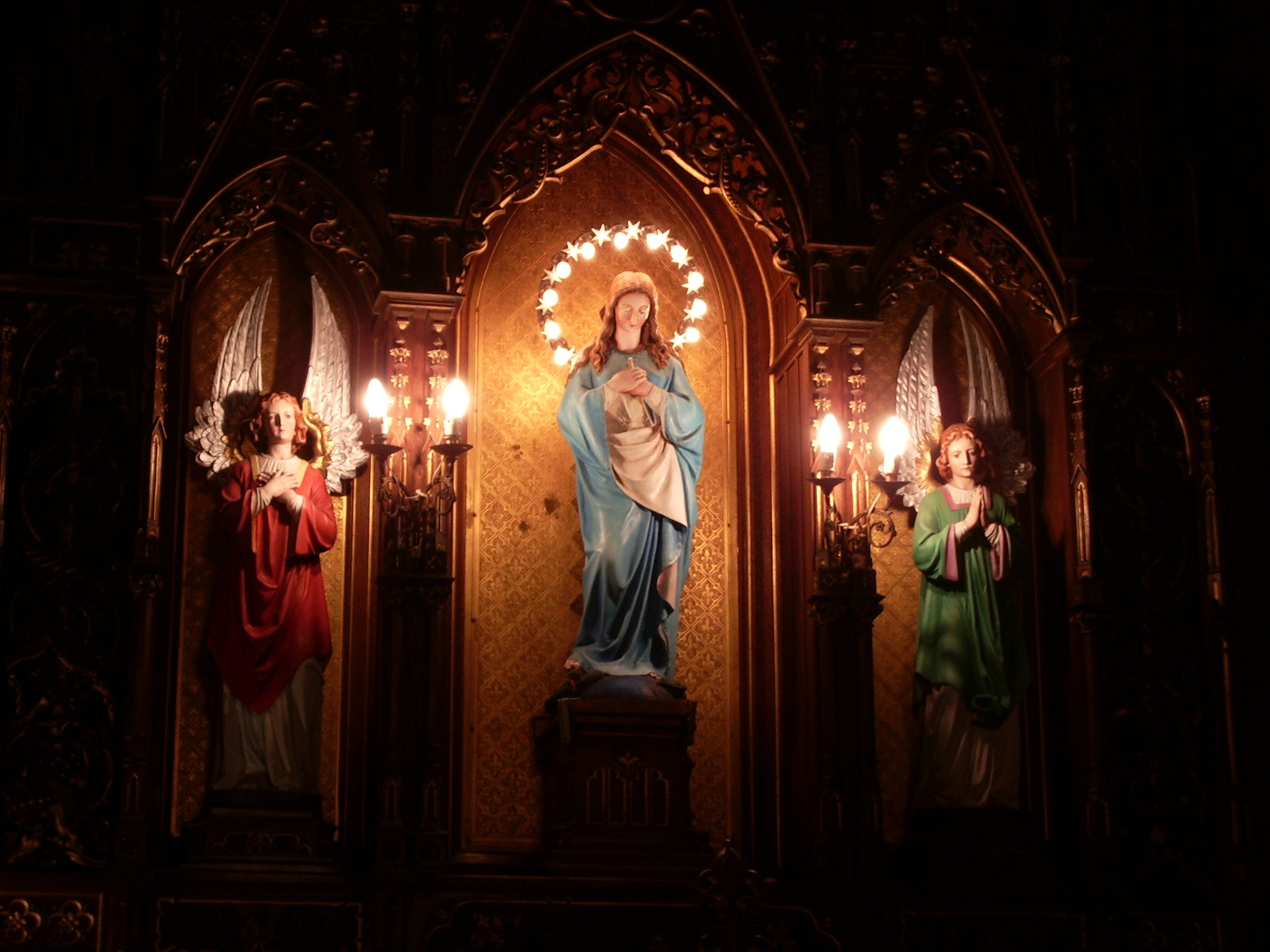 The interior of the "St Paul" Catholic church in Rousse, Bulgaria. No editing was applied - the image is in its original size and resolution.